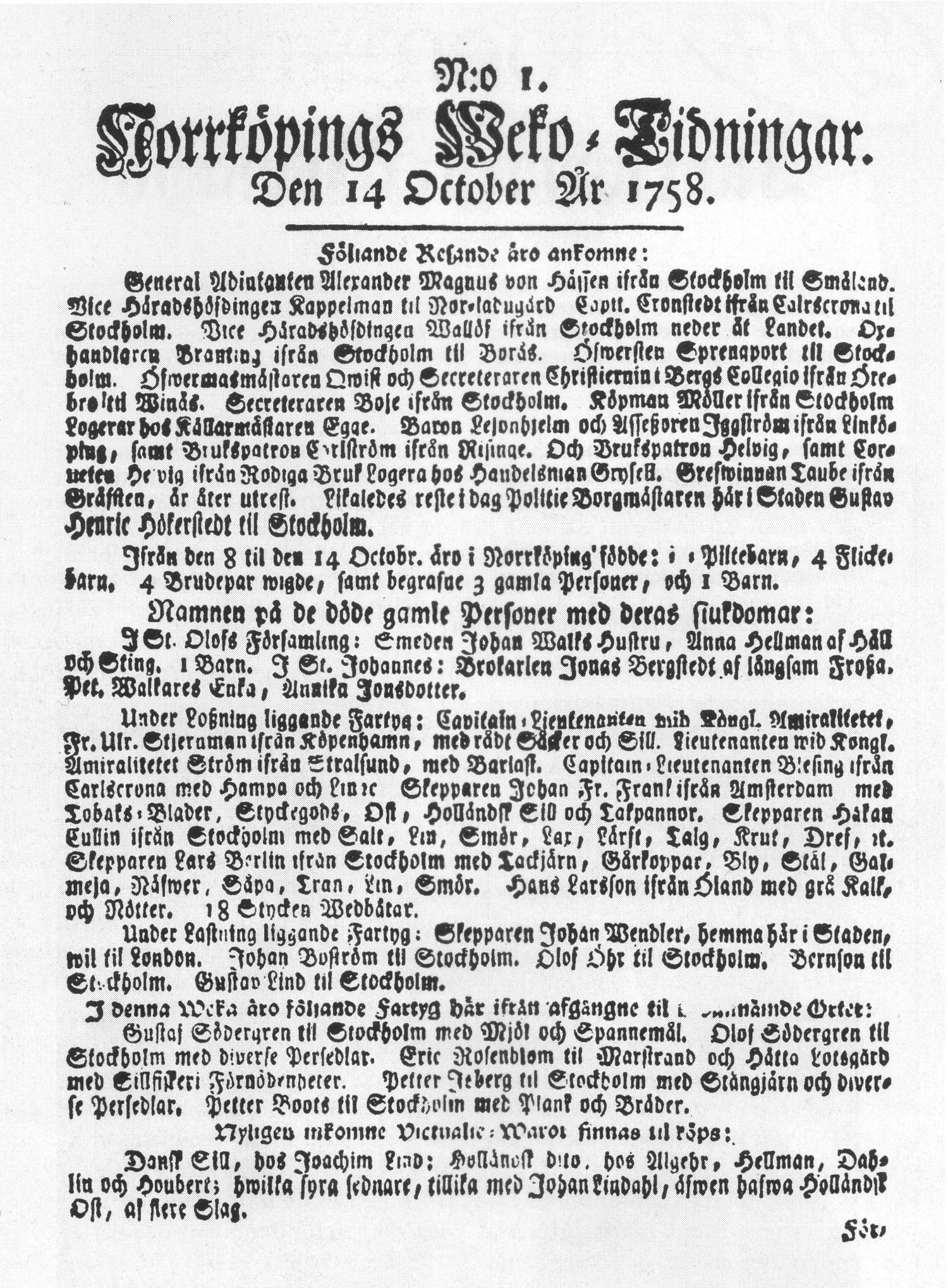 First edition of "Norrköpings Tidningar", published October 14, 1758